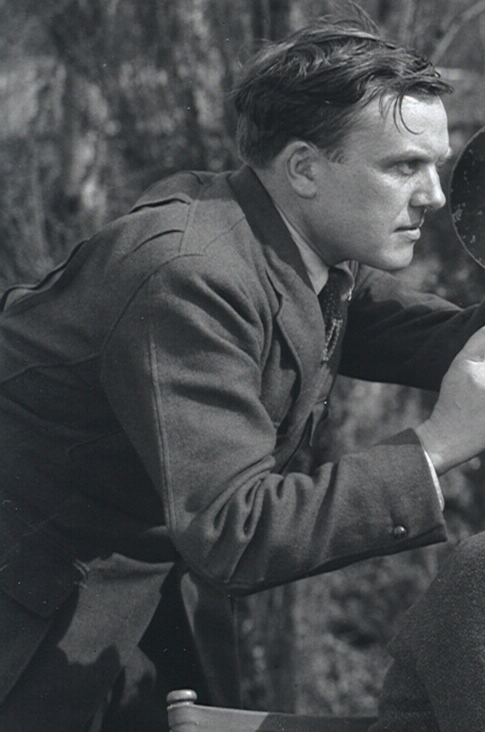 Walter Stradling (cinematographer), cropped from a still, on the set of Rebecca of Sunnybrook Farm - publicity still